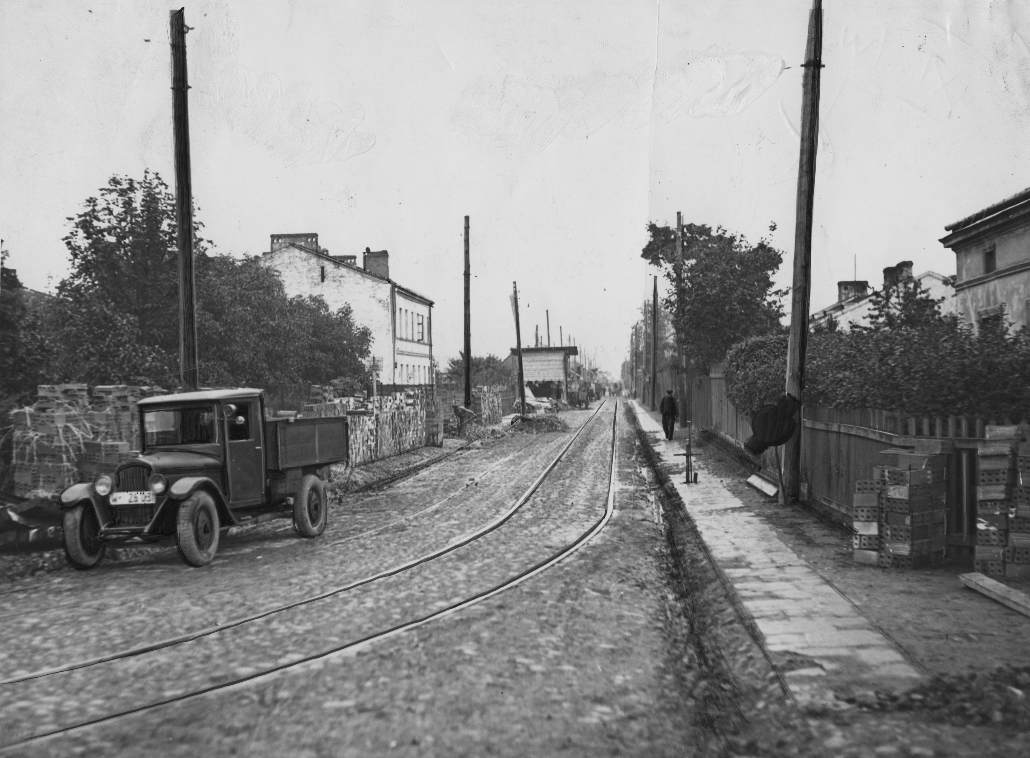 Szczęśliwicka Street in Warsaw